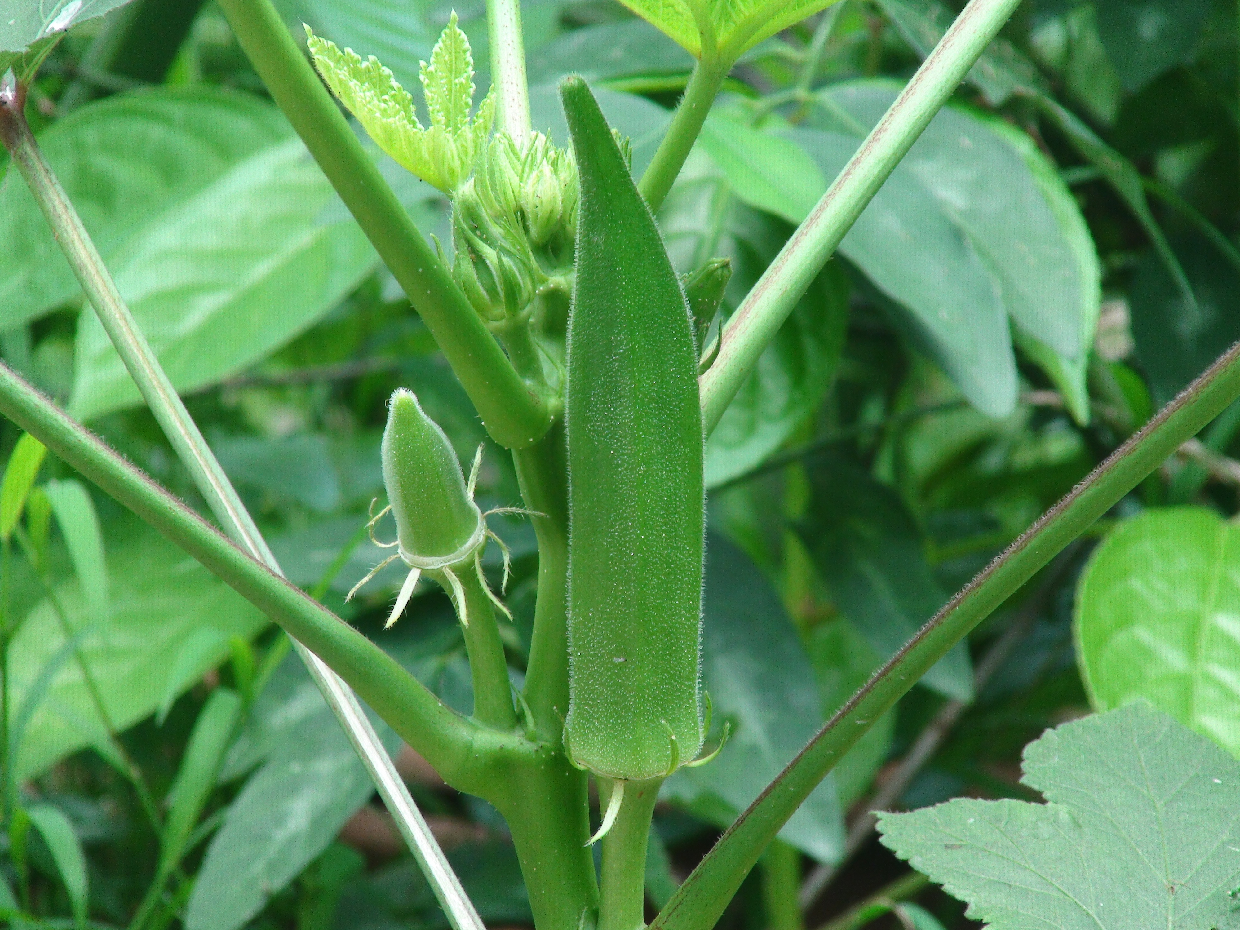 Earth100's Okra Plant, growing in Hong Kong, on August 25, 2012